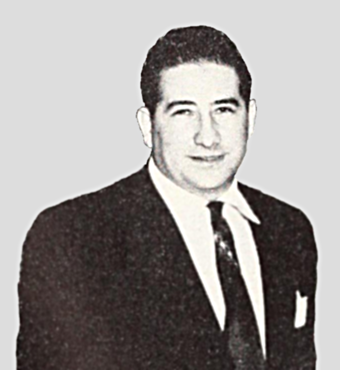 Lee Ratner during a broadcast of Saturday Night Dance Barn on WBBM; image was extracted from larger image with background removed by ThaddeusB